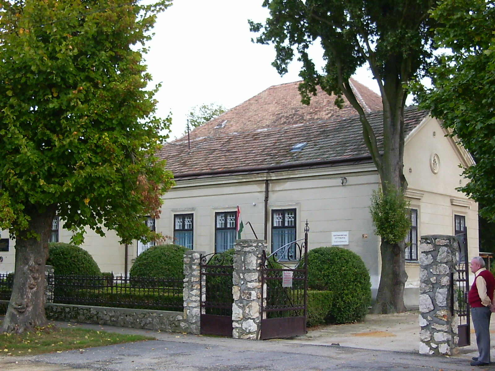 Csáfordjánosfa, Simon mansion, home of elderly persons